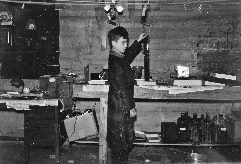 Young man developing film, 1937. Under a dim red light, I first removed the paper backing from the roll of film, see-sawed the film up and down in the developer tray for 5 minutes, then through the shortstop (acetic acid) for a minute, next to the hypo tray. After several minutes I turned on the light to see the results. I think the photo was taken in early 1937. I set this up in the basement of the family home north of Worthington, Ohio. I had to work at night and didn't build a darkroom until several years later. There was almost no ambient light at night back in the thirties, so it worked well. The film was probably 620 Verichrome which, as I recall, cost 30 cents a roll.